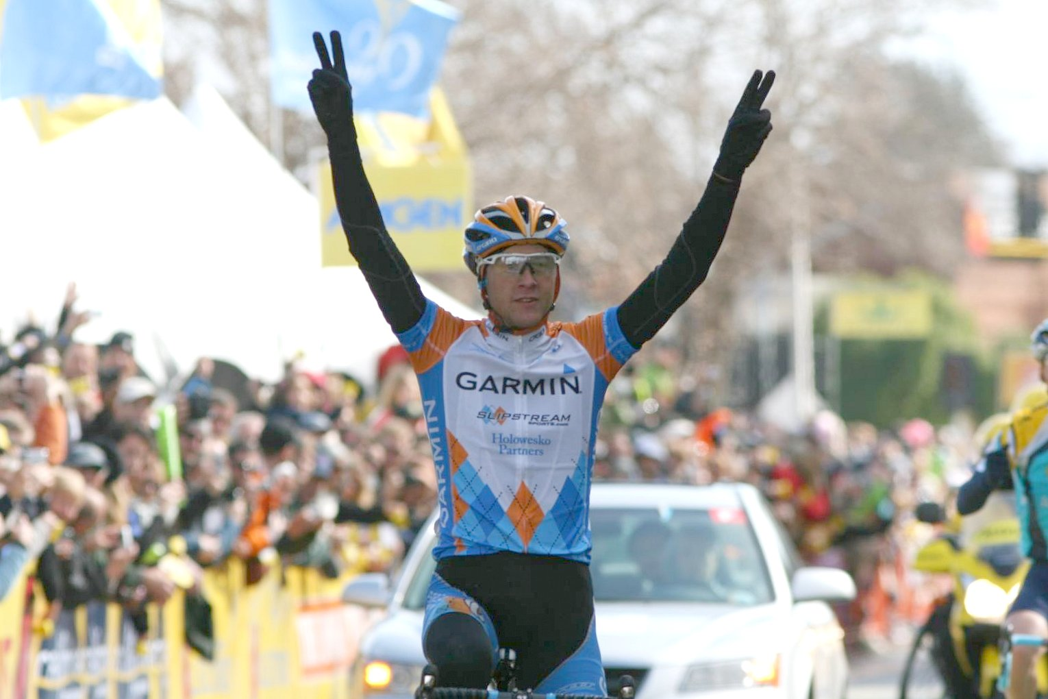 Tom Peterson of Garmin-Chipotle at the finish line. Amgen Tour of California Stage 2 finish in Santa Cruz, California. That's Levi Leipheimer behind him at the right of the photo.